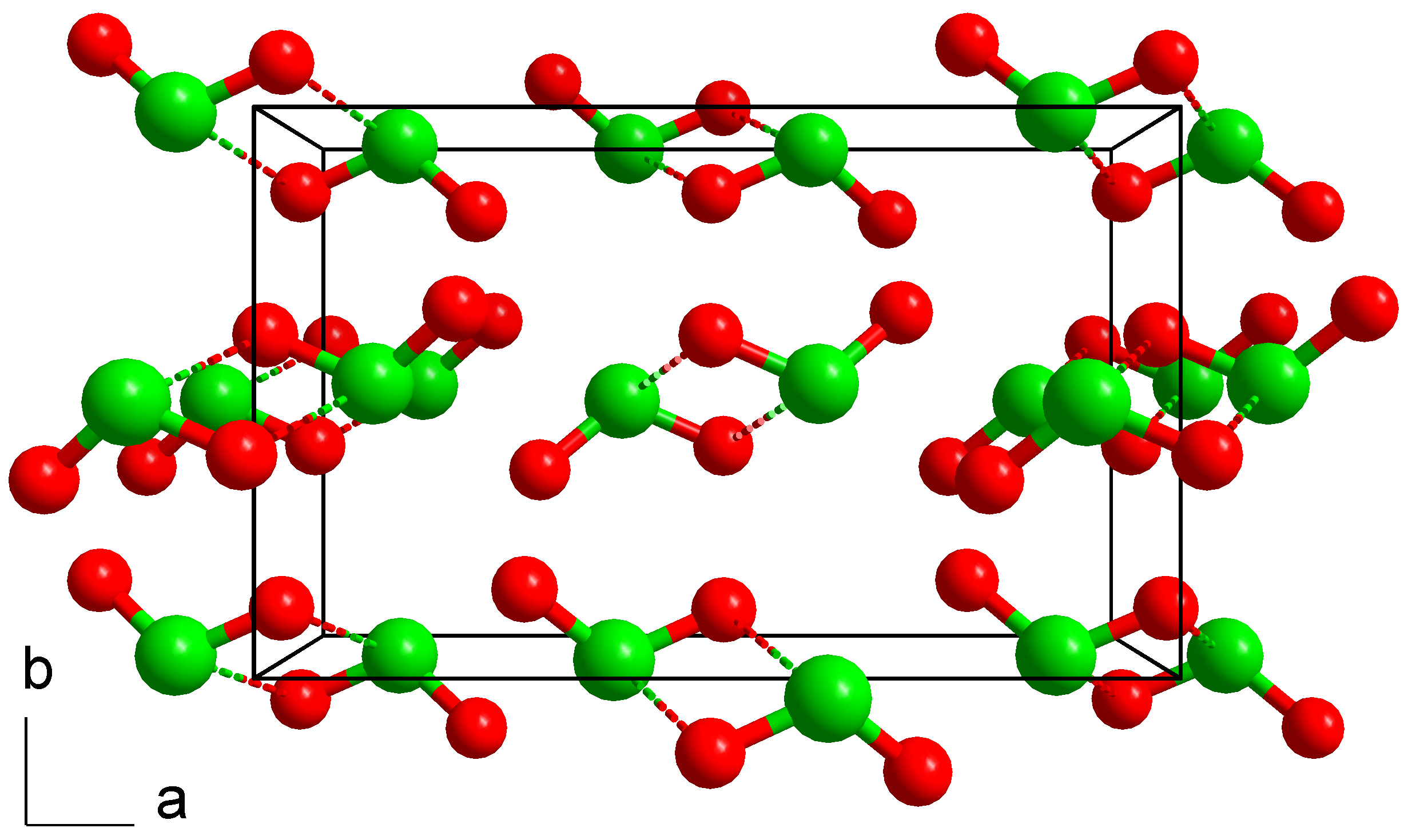 Crystal structure of chlorine dioxide ClO2 (central projection, view along [001]).